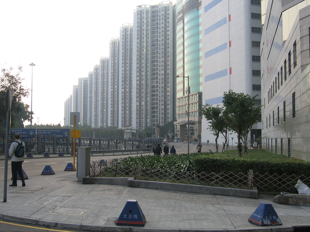 A view of Taikoo Shing from the northern end of Taikoo Place, Quarry Bay, Hong Kong.